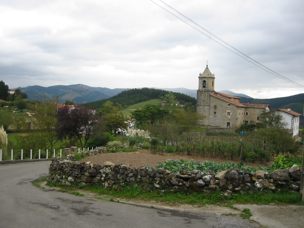 Bedoña.